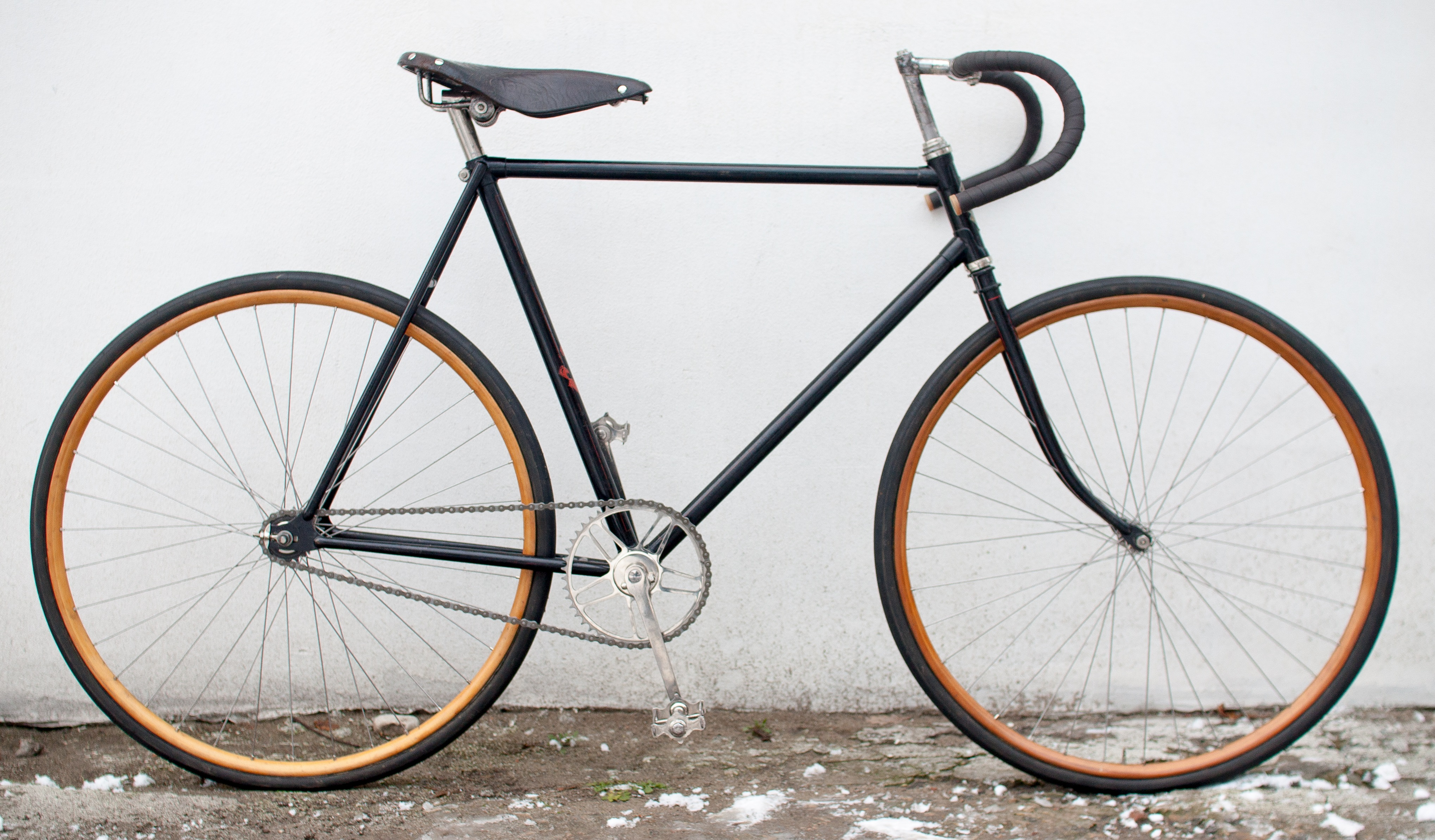 Gustavs Ērenpreis race bicycle, made in 1936 in Riga, Latvia